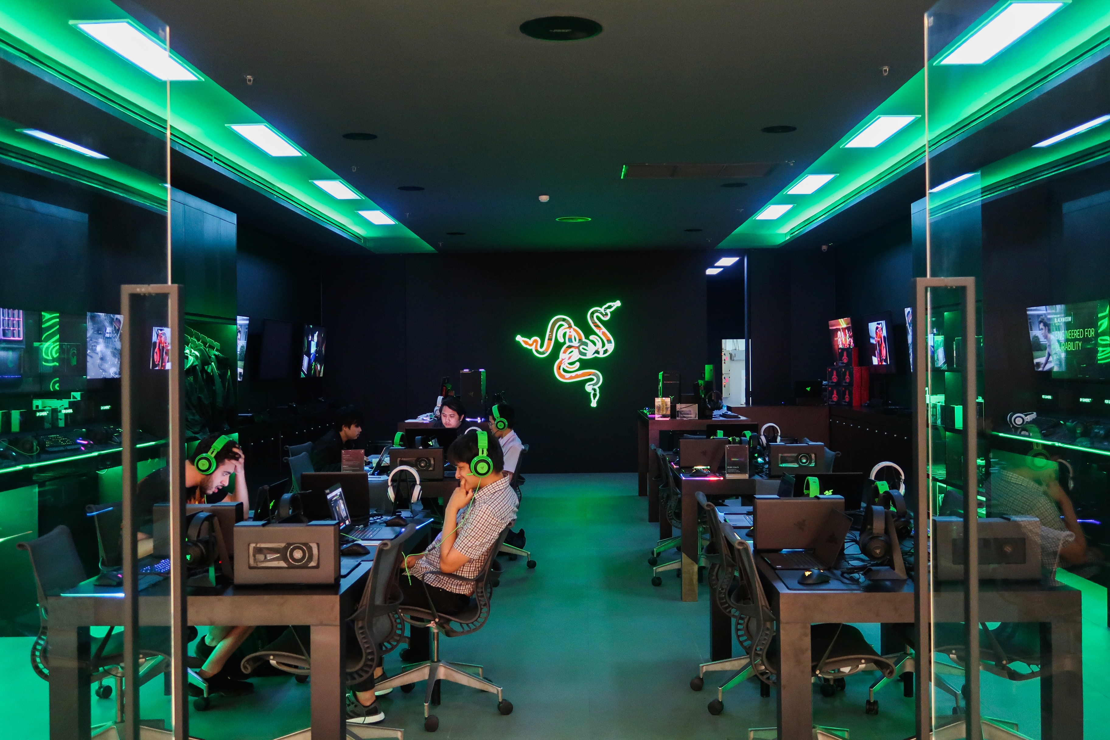 Razer in CentralWorld